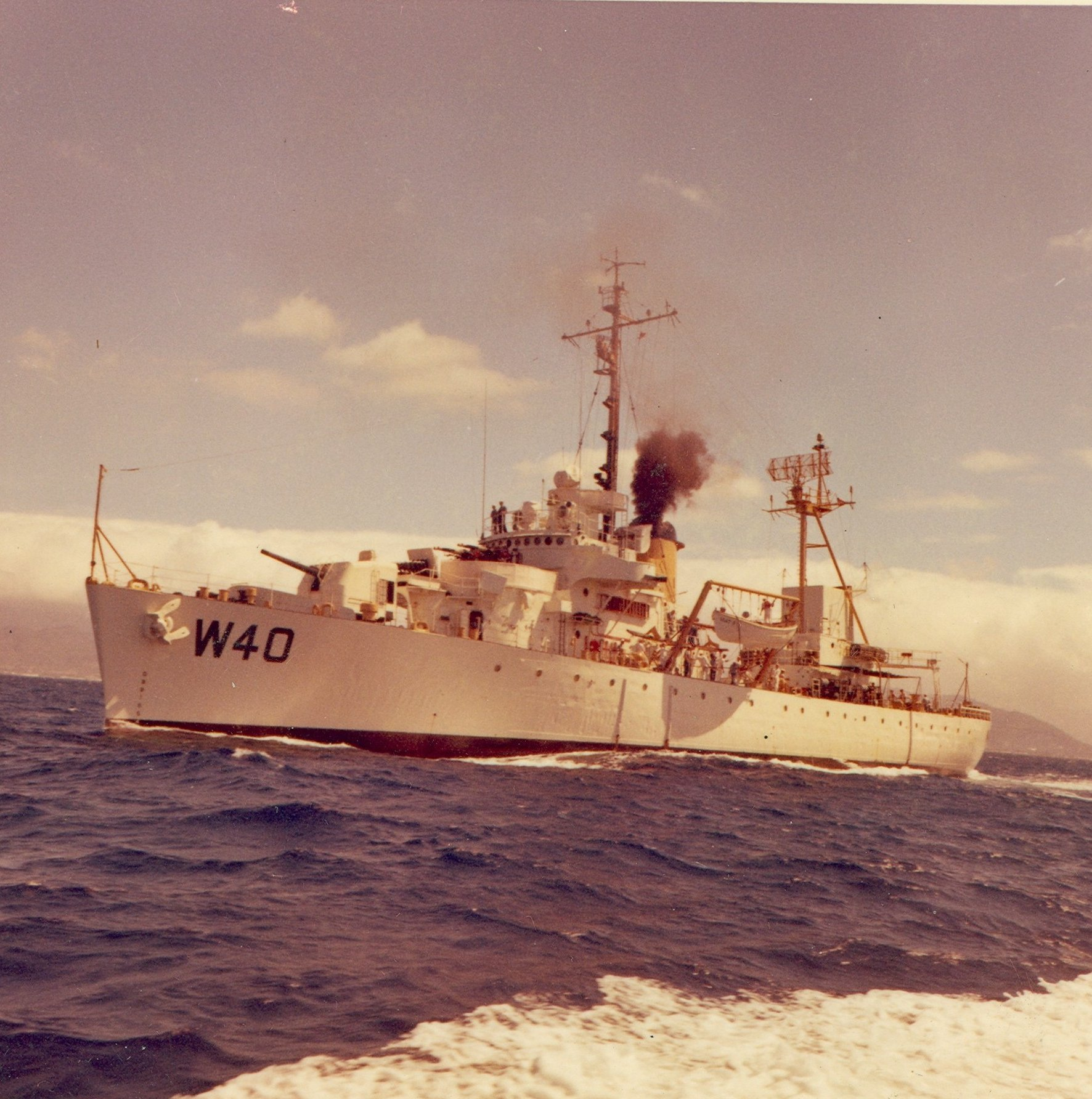 USCG Winnebago (WHEC-40)